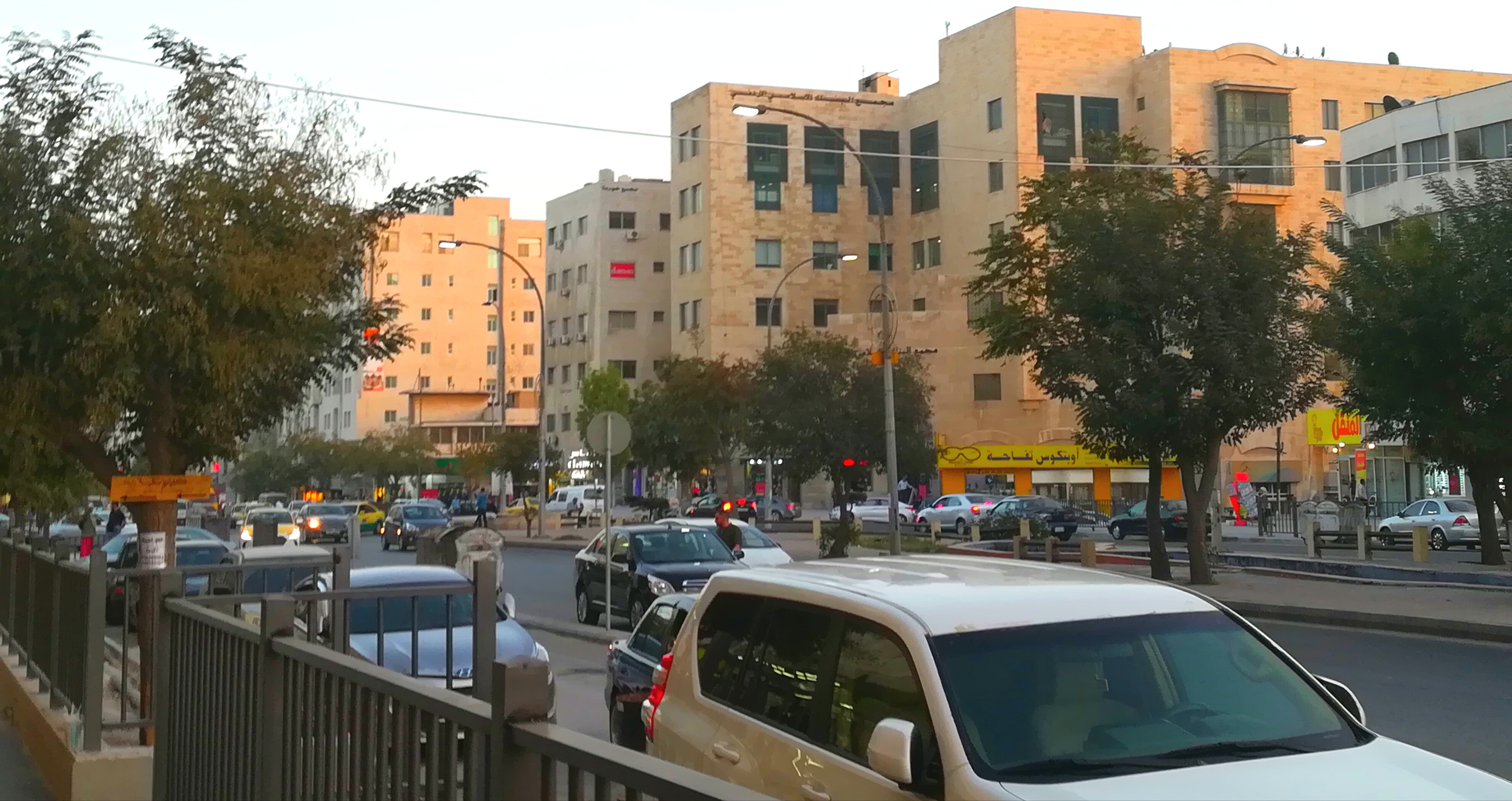 Jabal Al-Hussein in Amman, Jordan